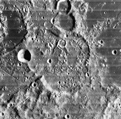 LOIV-189-H2 image